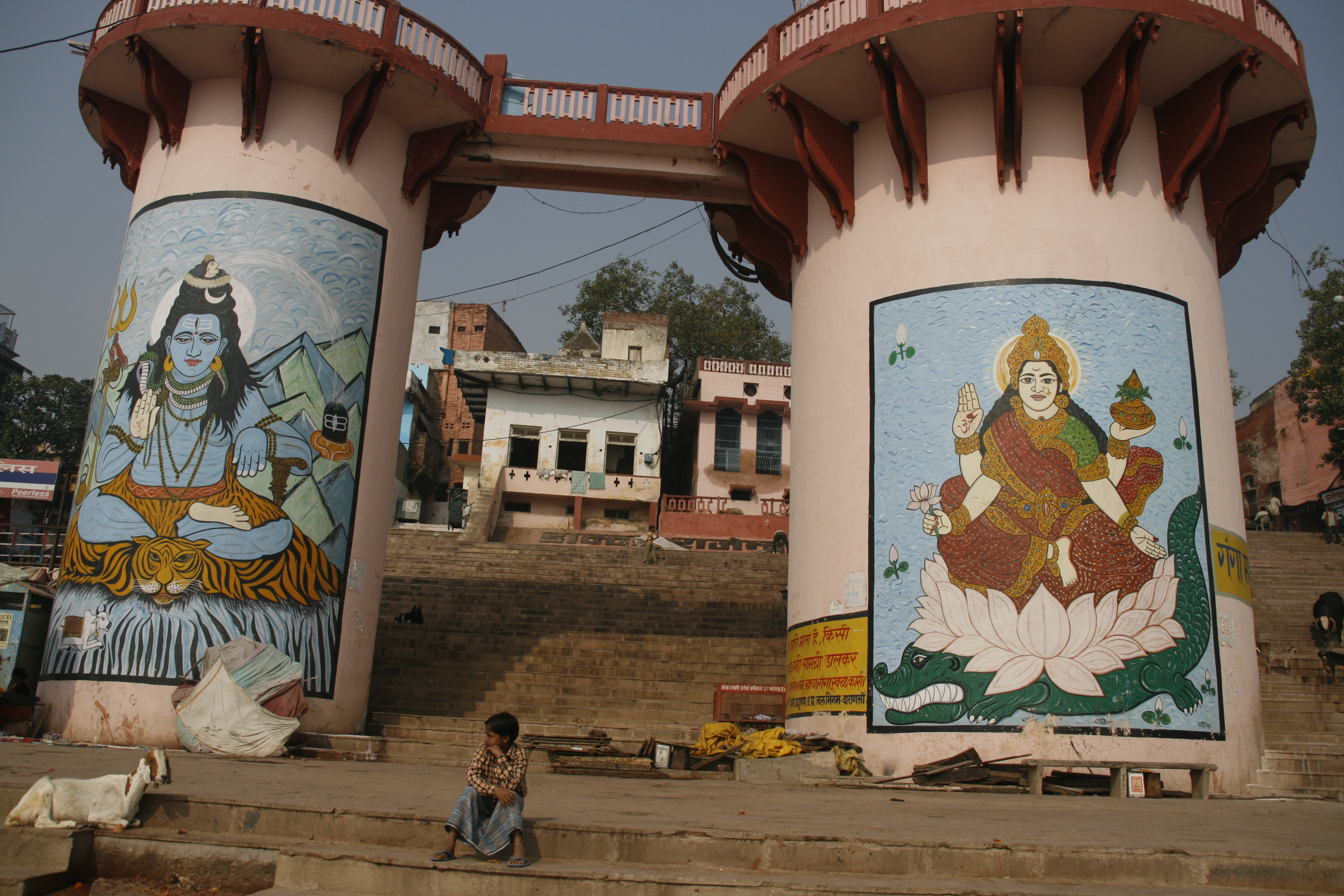 Shiva and Ganga paintings in Varanasi